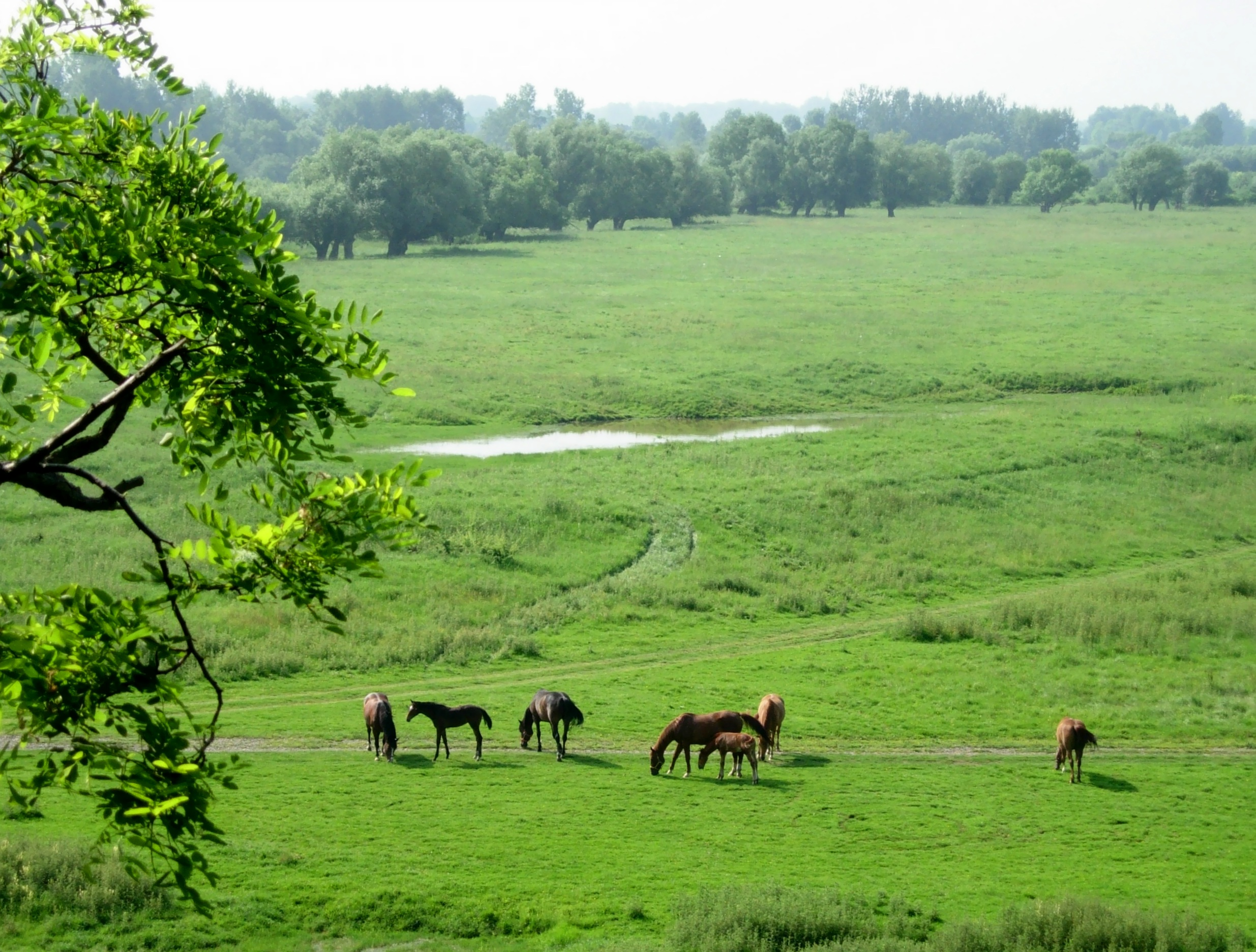 Landscape near Opatowiec in Poland